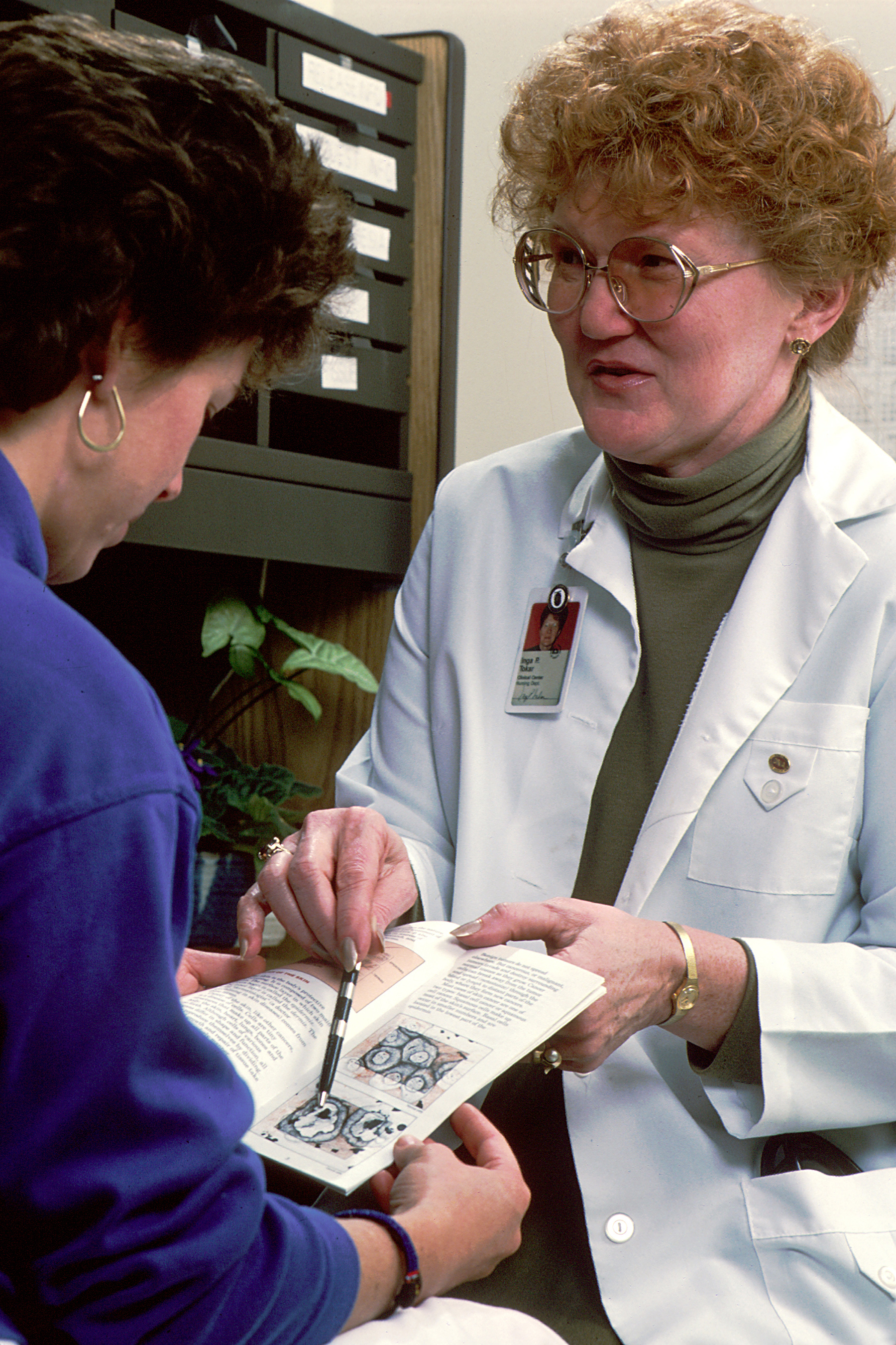 Title Nurse With Patient Description A Caucasian female nurse explains information in a booklet to a Caucasian female patient. Topics/Categories People -- Adult People -- Health Professional and Patient Type Color, Photo Source National Cancer Institute